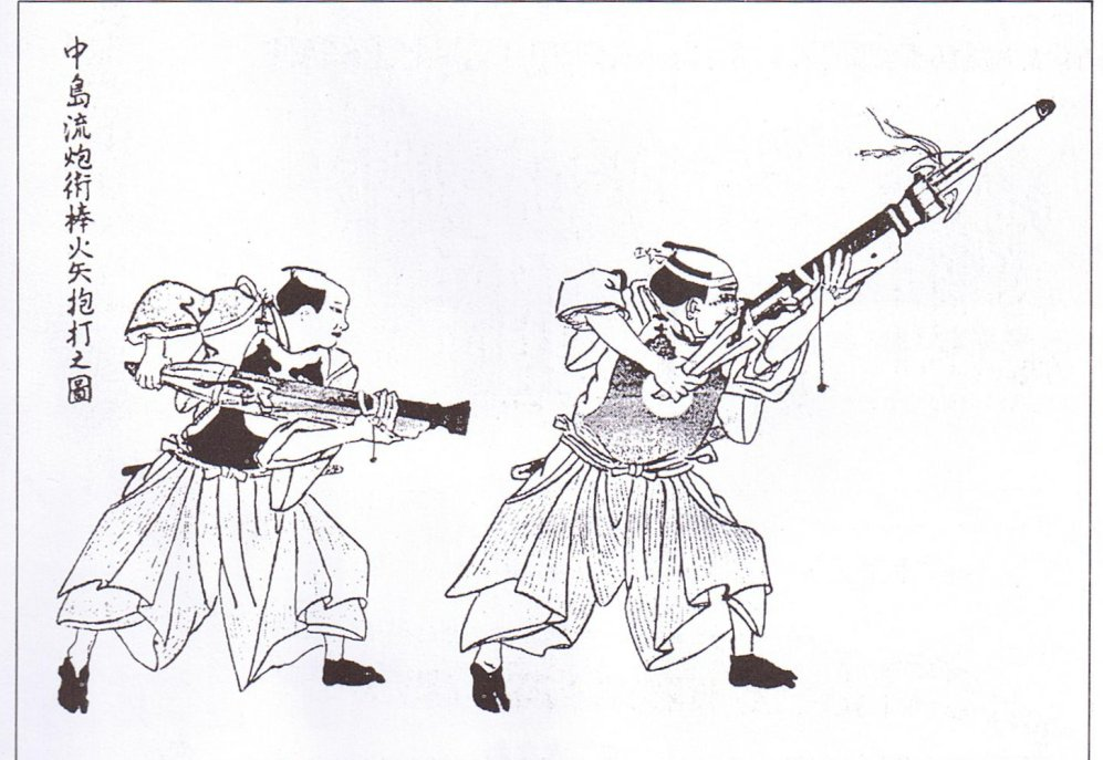 A Japanese Edo period wood block print showing a gunner firing a hiya-zutsu (flame arrow gun) loaded with a bo-hiya (Japanese fire arrow).